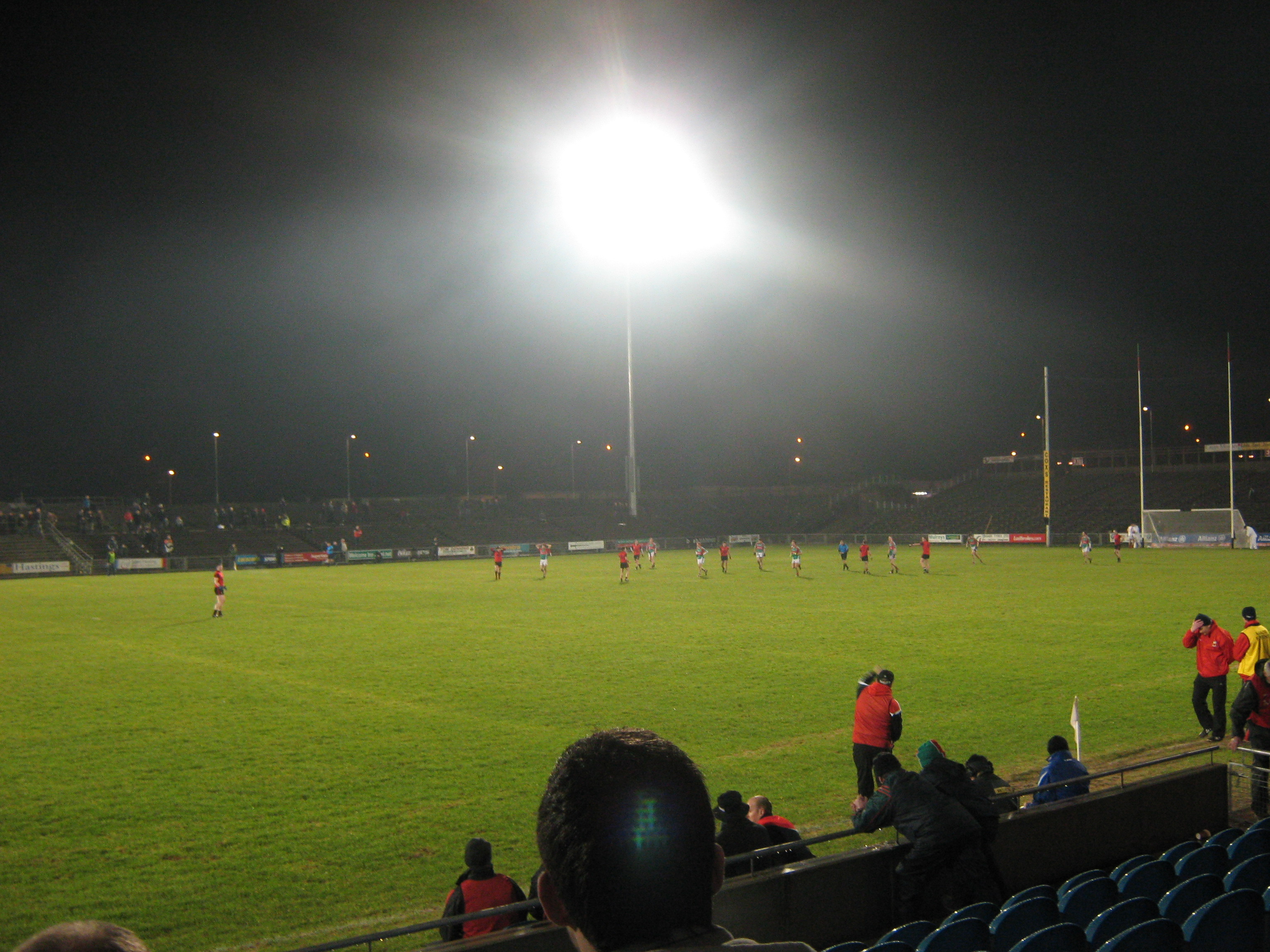 Mayo host Down at McHale Park for the first time under lights during the 2011 National Football League Division 1.